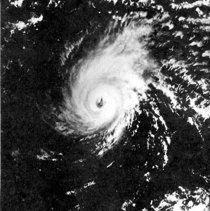 Hurricane Fico to the south of Hawaii on July 20, 1978